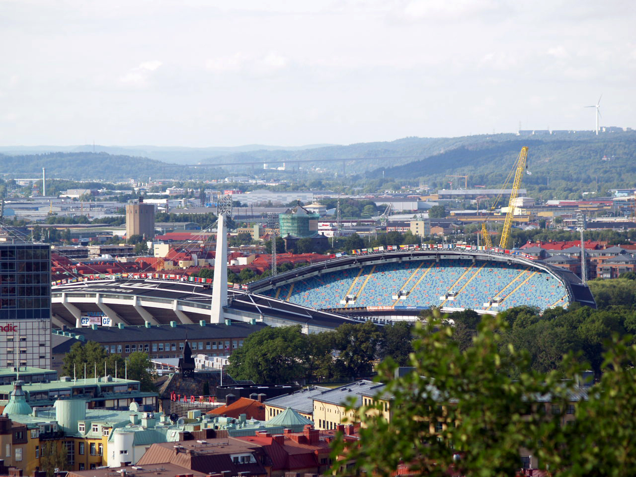 Ullevi stadium in Gothenburg, Sweden.